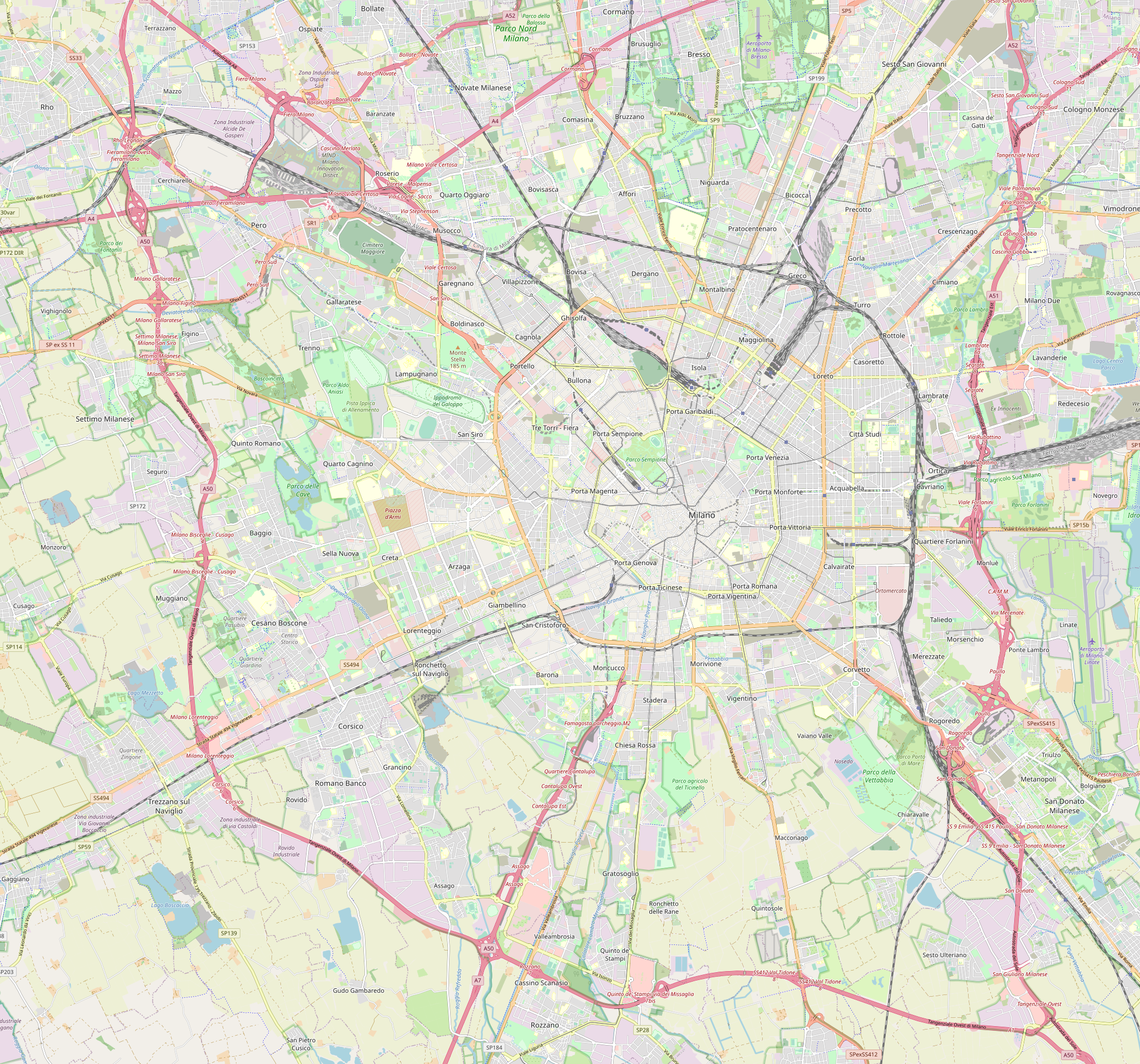 Map of Milan Geographic limits of the map: N: 45.5411° S: 45.4108° W: 9.0916° E: 9.2835°